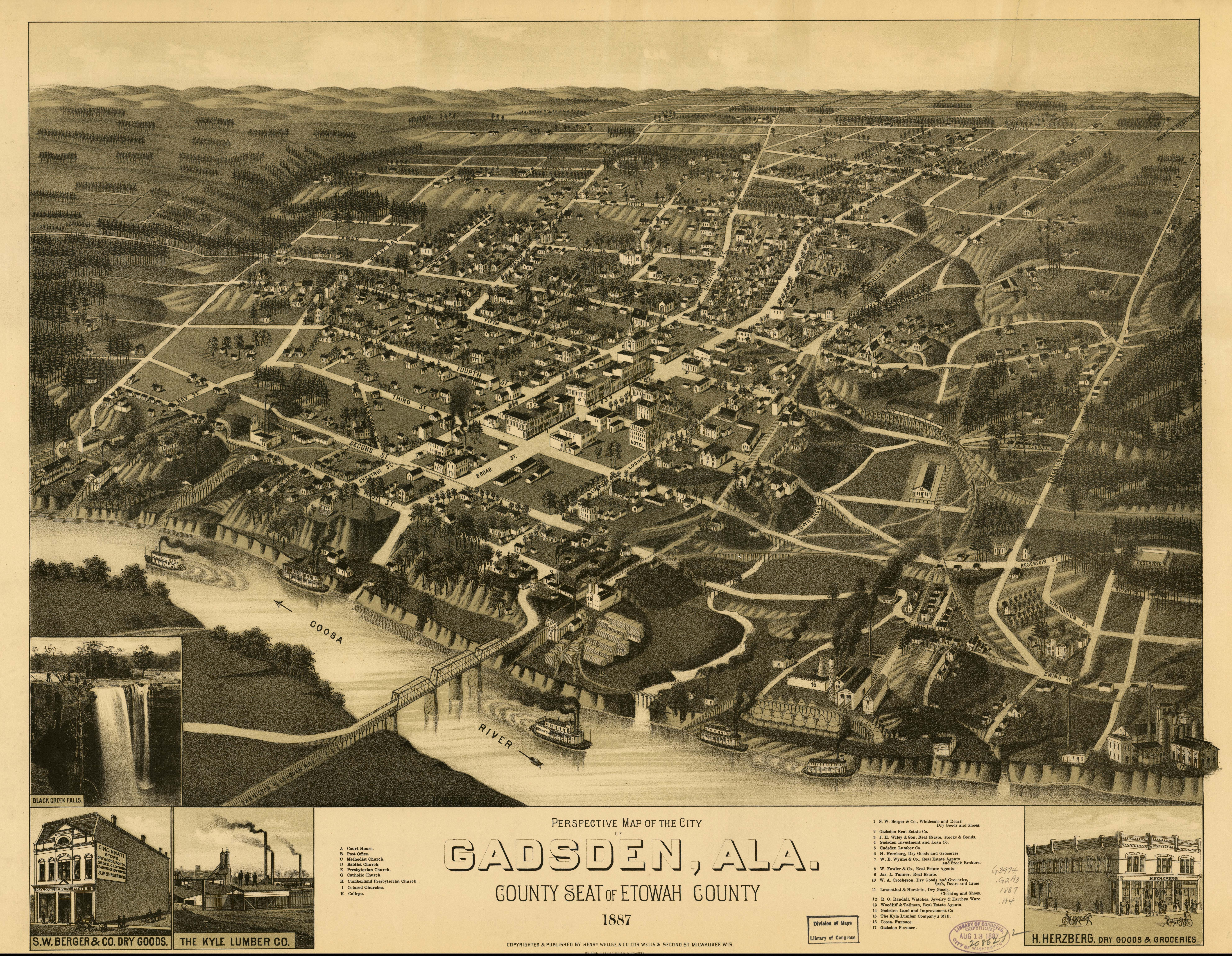 Perspective map of the city of Gadsden, Alabama, United States. The view is from the east side of the Coosa River aimed to the west.